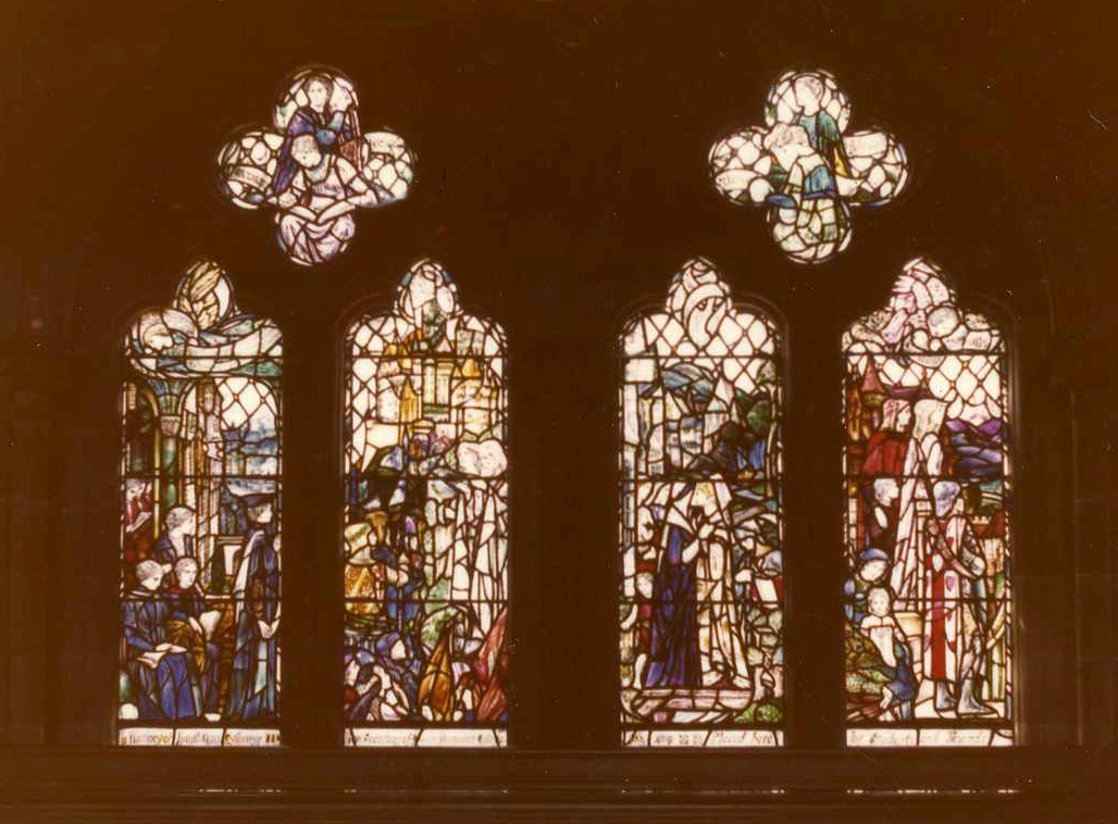 Photograph of Janet Galloway Memorial Window, Bute Hall, University of Glasgow, Glasgow, Scotland. Also: Jessie Campbell and Isabella Elder. Design by Douglas Strachan. The window is called: The Pursuit of Ideal Education